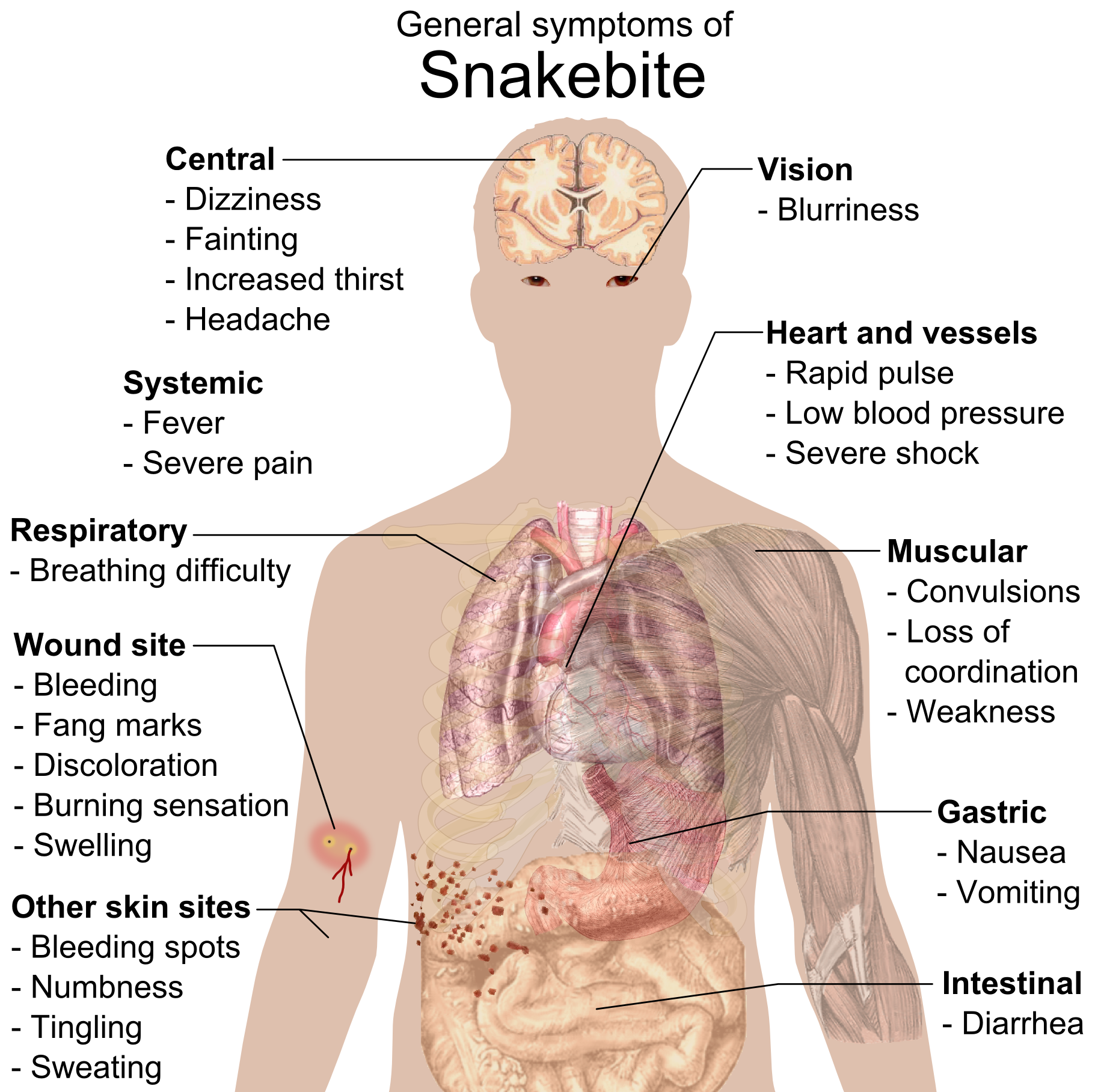 Most common symptoms of any kind of snake bite poisoning (See also Wikipedia:Snake#Snake_bite). To discuss image, please see Template talk:Human body diagrams